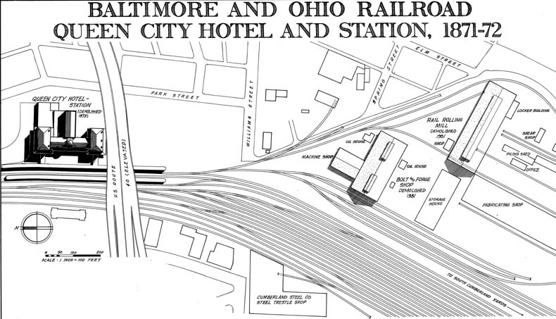 Queen City Hotel & Station located in Cumberland was one of Five Combination Station-Hotels Built by the B&O during the 1870s. It was Designed by Thomas N. Heskett of the RailRoad's Road Department, was Italianate in Style, and was opened for the Accommodation and Entertainment of passengers in 1872. Though No Longer used as a Hotel, The Queen City was one of the last Remaining Grand, Railroad Hotels in the US in the early 1970s. Efforts to preserve this ornate, Victorian-era Structure was one of the classic preservation battles of the early 1970s. The battle was lost when the building was demolished in 1972. (B&O Railroad Survey: B&O Railroad and Queen City Hotel and Station, 1871-1872. Office of Archeology and Historic Preservation, United States Department of the Interior, 1970)